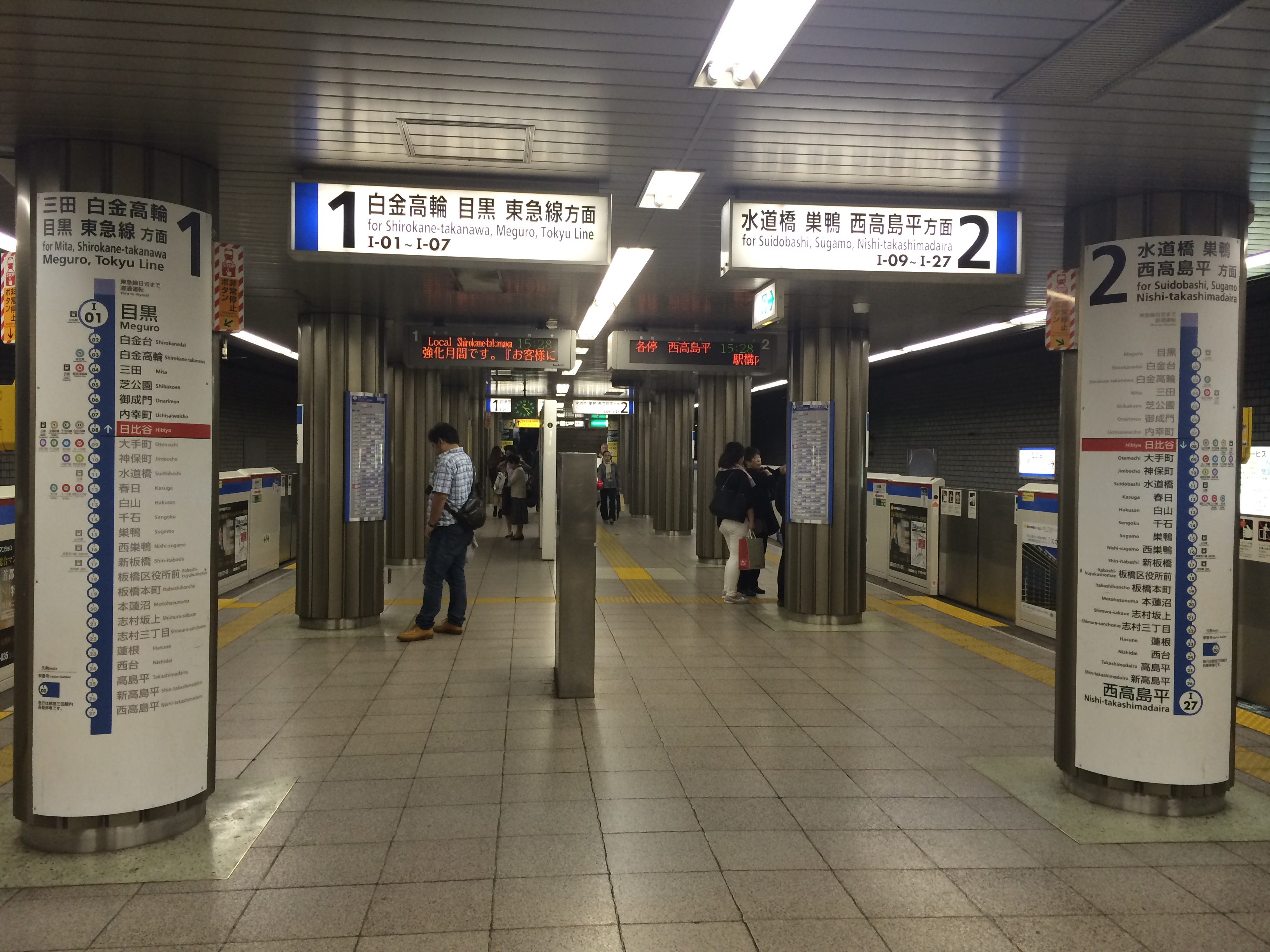 The platforms in the Hibiya Station,Toei-Mita Line